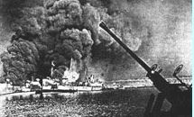 The SS John Harvey on fire after a German attack on 12/2/1943 in the Italian port of Bari.